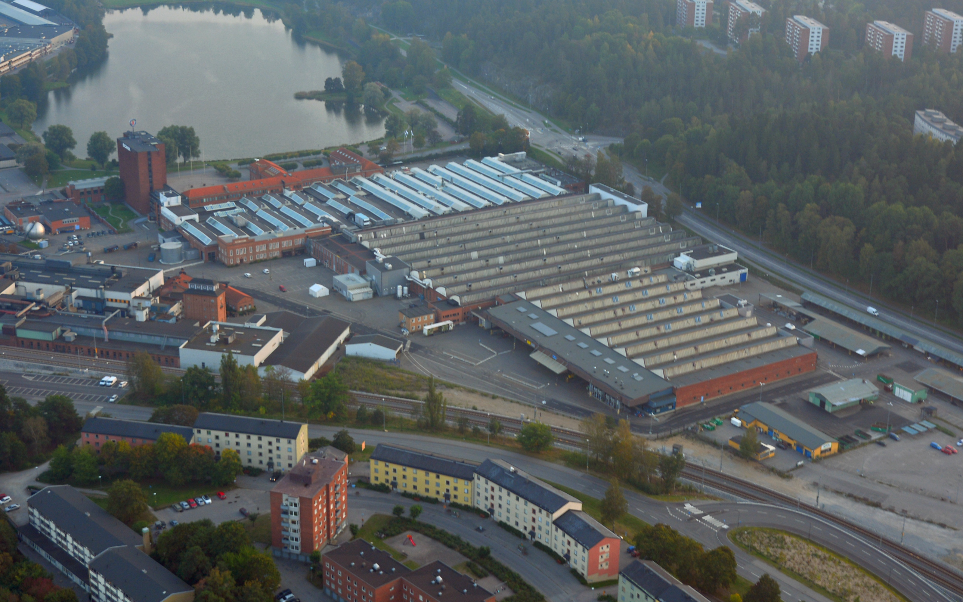 Scania factory in Södertälje, Sweden.